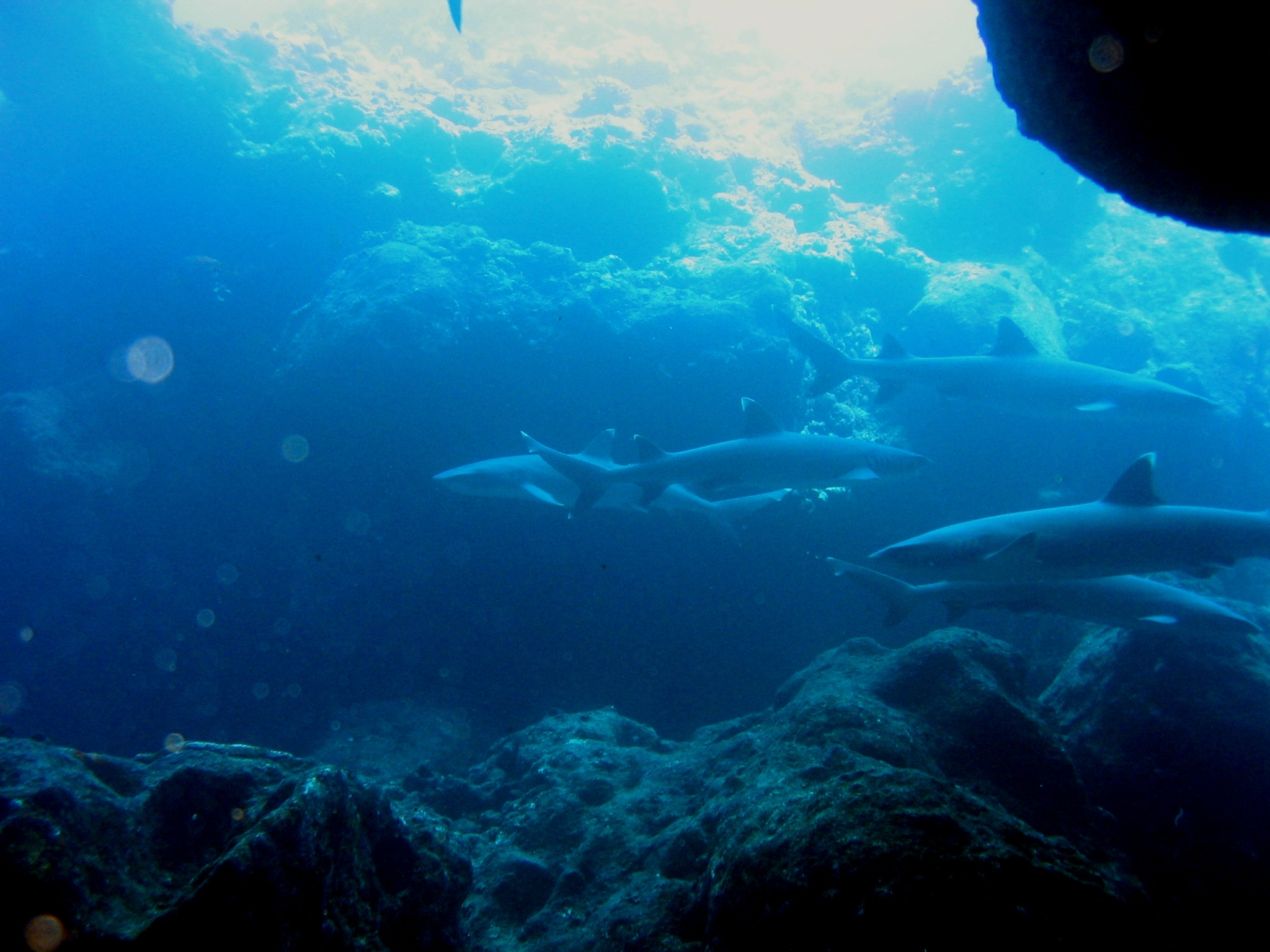 A group of white-tip sharks (Triaenodon obesus) in the Northwestern Hawaiian Islands.